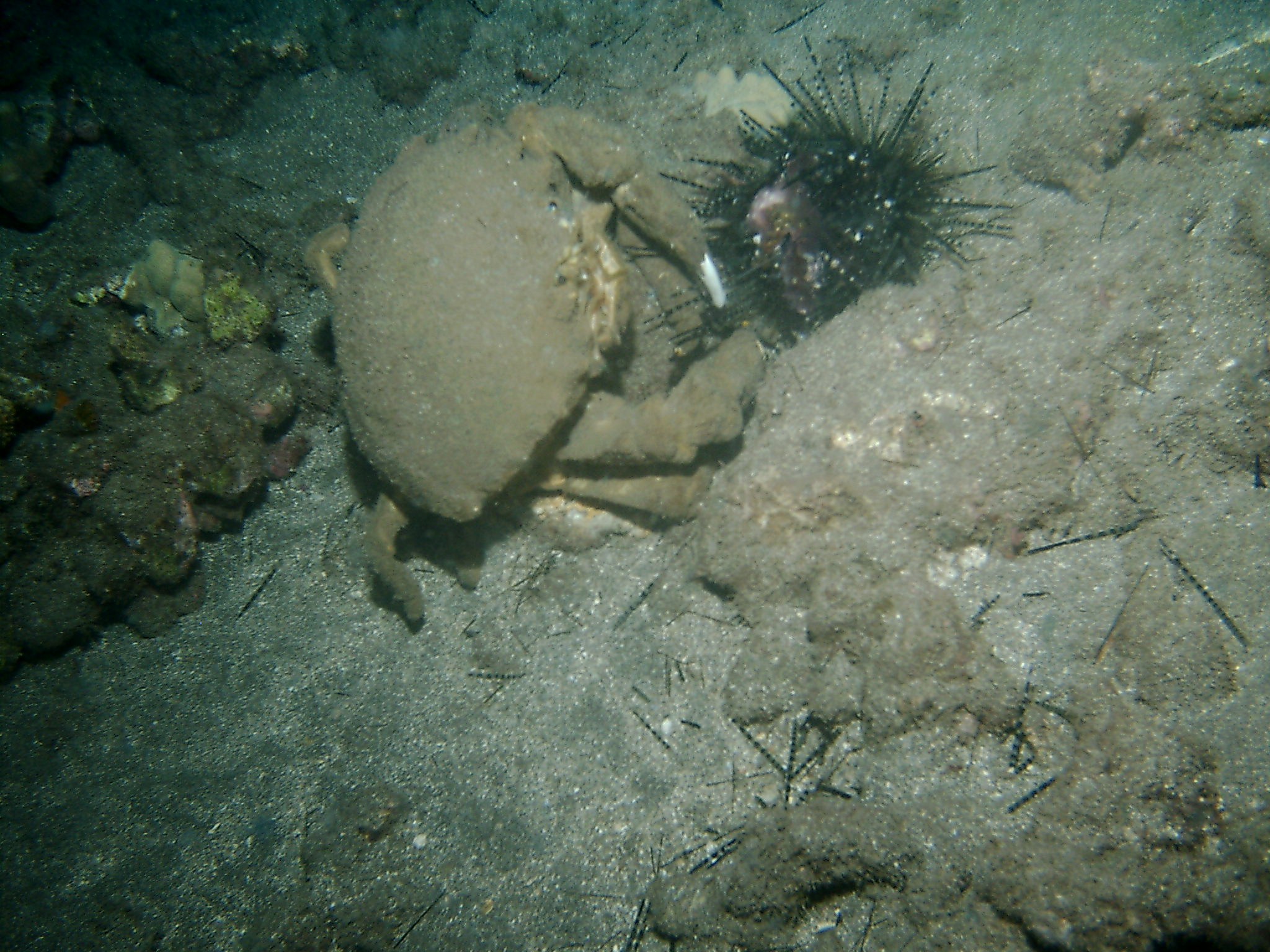 A sponge crab (Dromidiopsis dormia) demolishing a sea urchin off the coast of Maui, Hawaii. Taken on a night scuba dive.